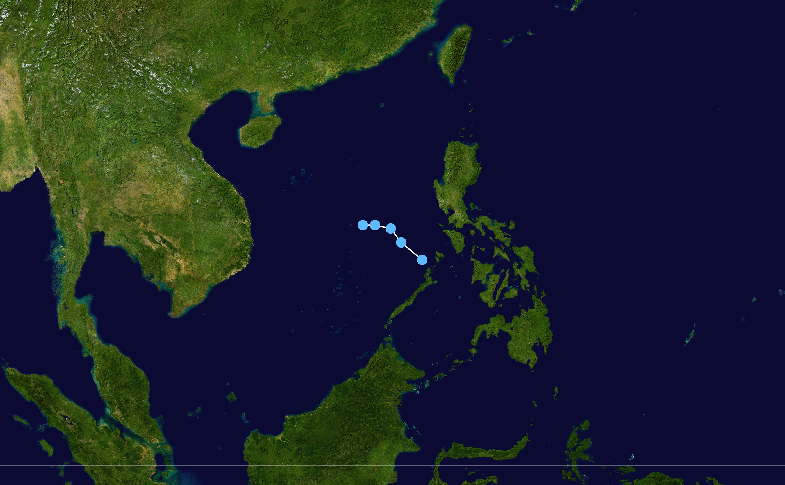 Track map of JMA Tropical Depression Two of the 2016 Pacific typhoon season. The points show the location of the storm at 6-hour intervals. The colour represents the storm's maximum sustained wind speeds as classified in the Saffir–Simpson scale (see below), and the shape of the data points represent the nature of the storm, according to the legend below. Saffir–Simpson scale Tropical depression≤38 mph≤62 km/h Category 3111–129 mph178–208 km/h Tropical storm39–73 mph63–118 km/h Category 4130–156 mph209–251 km/h Category 174–95 mph119–153 km/h Category 5≥157 mph≥252 km/h Category 296–110 mph154–177 km/h Unknown Storm type Tropical cyclone Subtropical cyclone Extratropical cyclone / Remnant low / Tropical disturbance / Monsoon depression